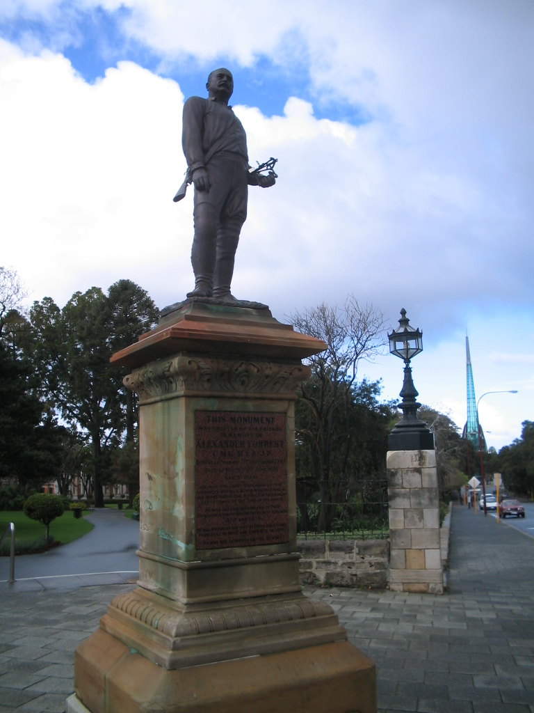 Statue of Alexander Forrest by Pietro Porcelli at entrance to Stirling Gardens, corner of Barrack St and St Georges Tce, Perth, Australia.